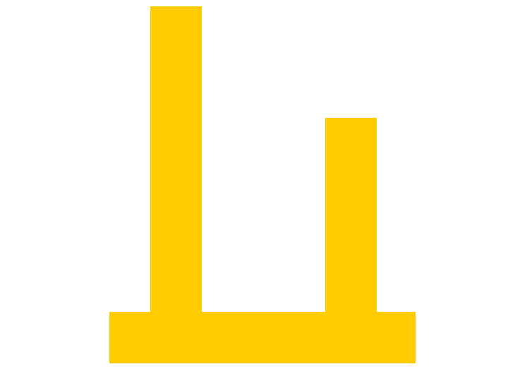 Mark of Ww2 GermanDivision Panzer 6 - July 1943 - Operation Zitadelle